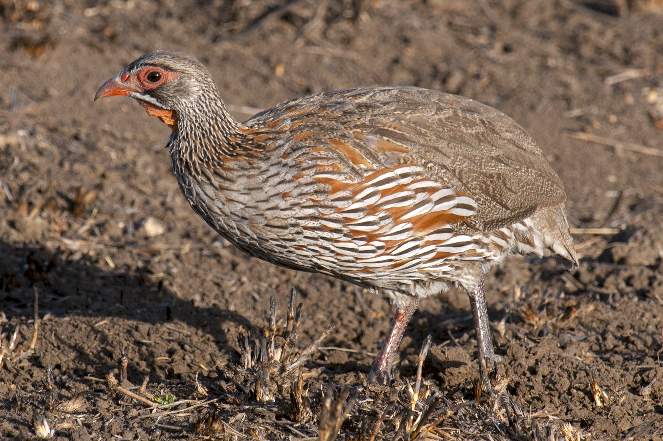 Grey-breasted spurfowl in the Serengeti National Park